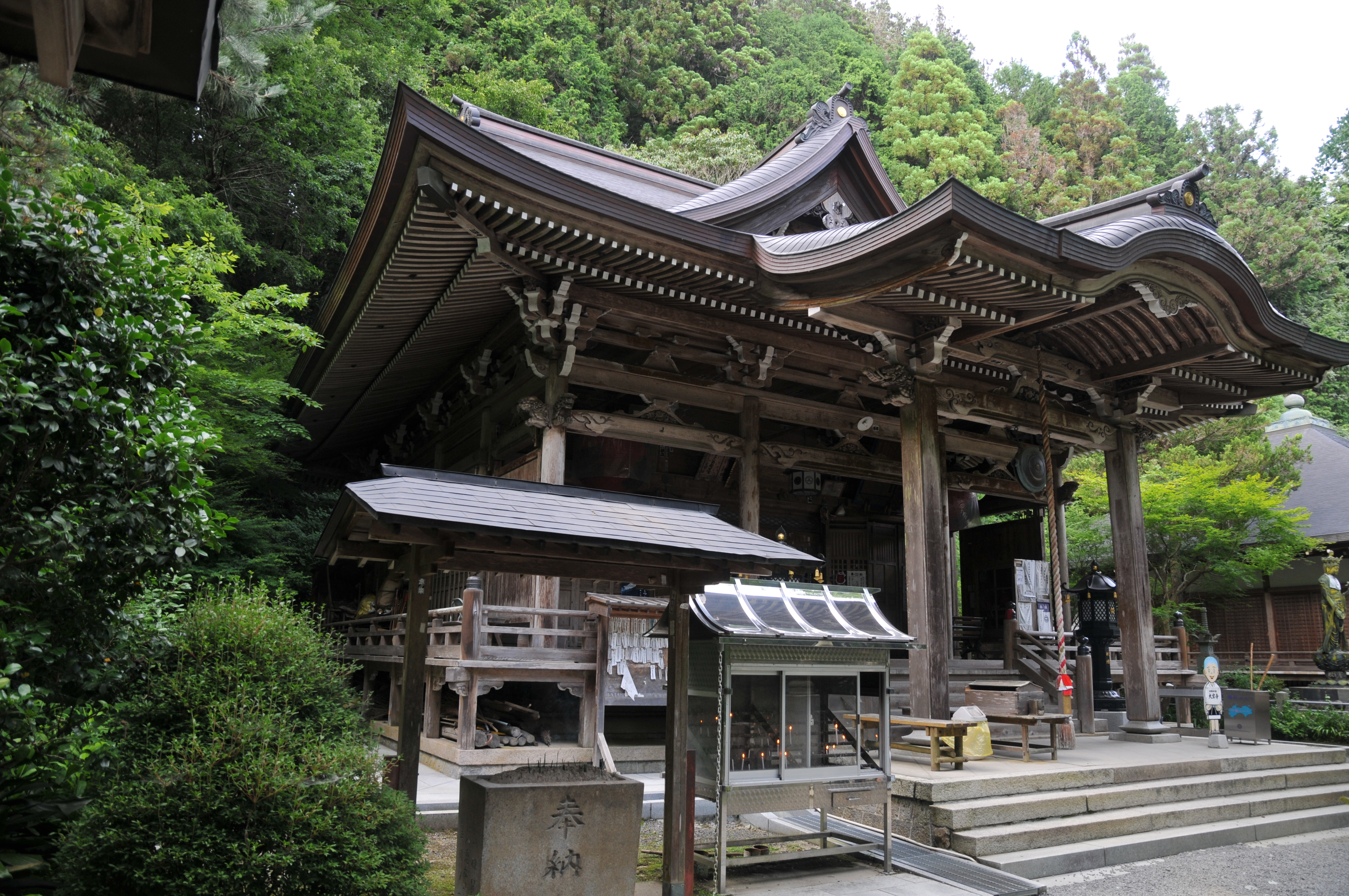 Main temple, Daihō-ji